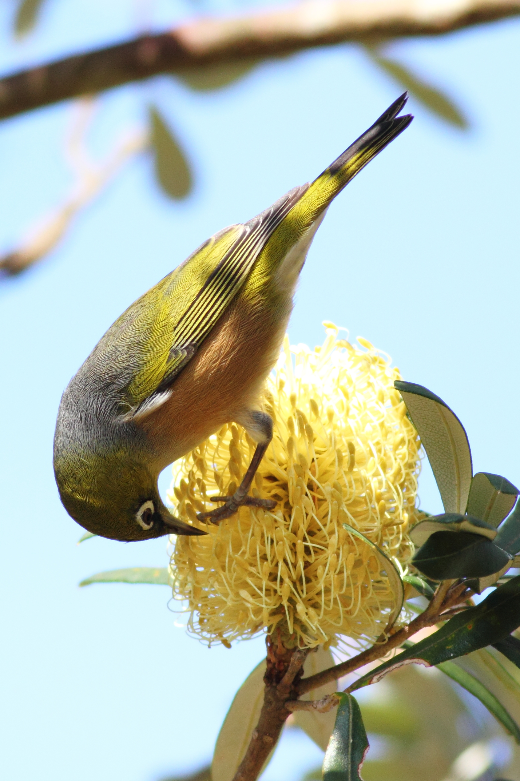 A Silvereye feeding from a flower in Phillip Island, Victoria, Australia.